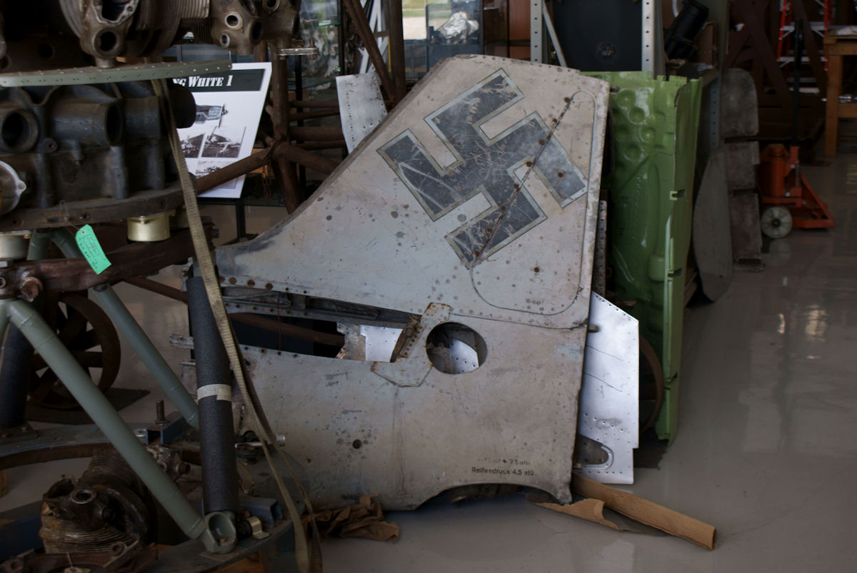 Focke-Wulf_Fw-190-F8_White1_parts_tail_KAM_11Aug2010